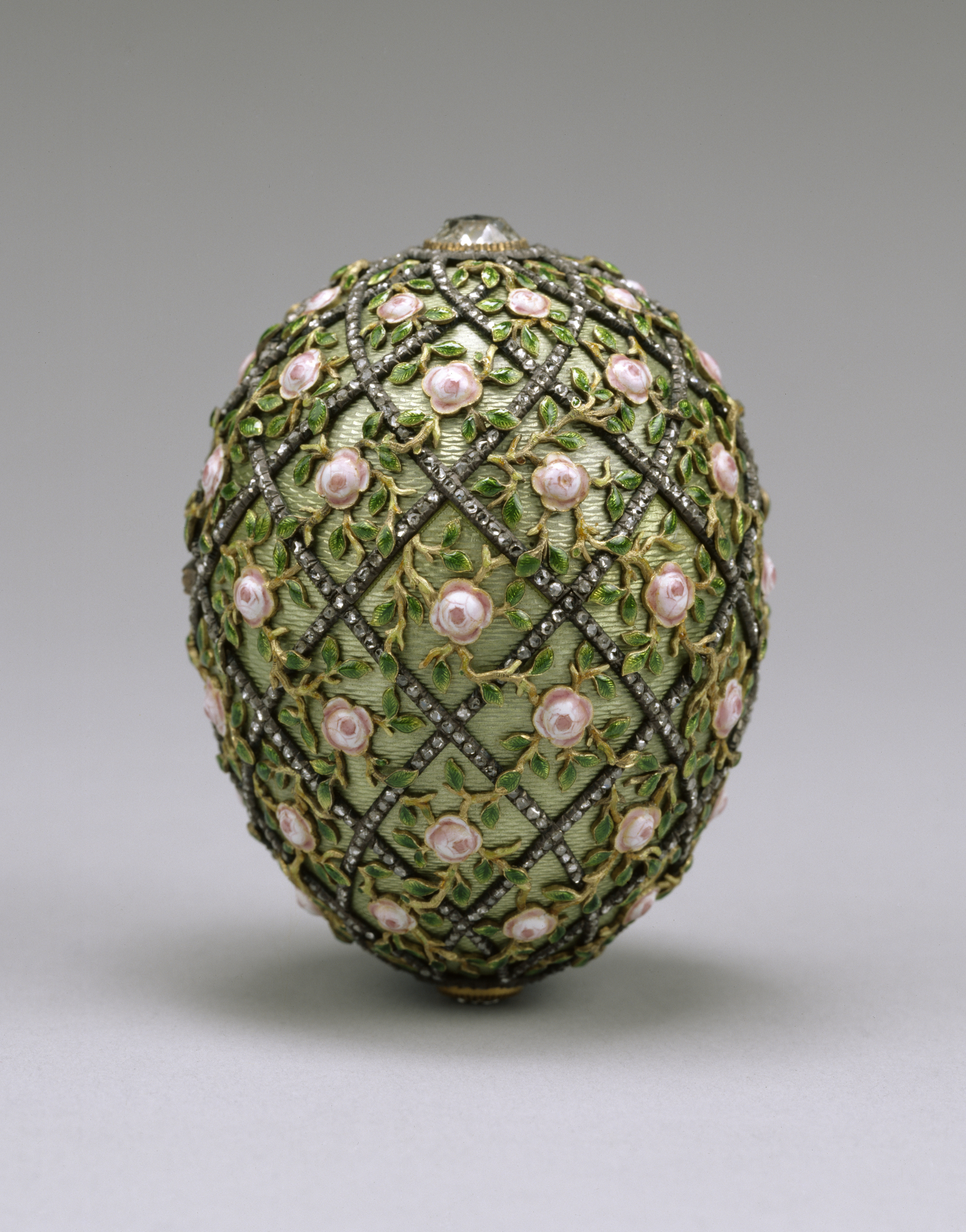 On April 22, 1907, Tsar Nicholas II presented this egg to his wife, Alexandra Fedorovna, to commemorate the birth of the tsarevich, Alexei Nicholaievich, three years earlier. Because of the Russo-Japanese War in 1904, no Imperial Easter eggs had been produced for two years. The egg contained as a surprise a diamond necklace and an ivory miniature portrait of the tsarevich framed in diamonds (now lost). Fabergé's invoice, dated April 21, 1907, listed the egg at 8,300 rubles.